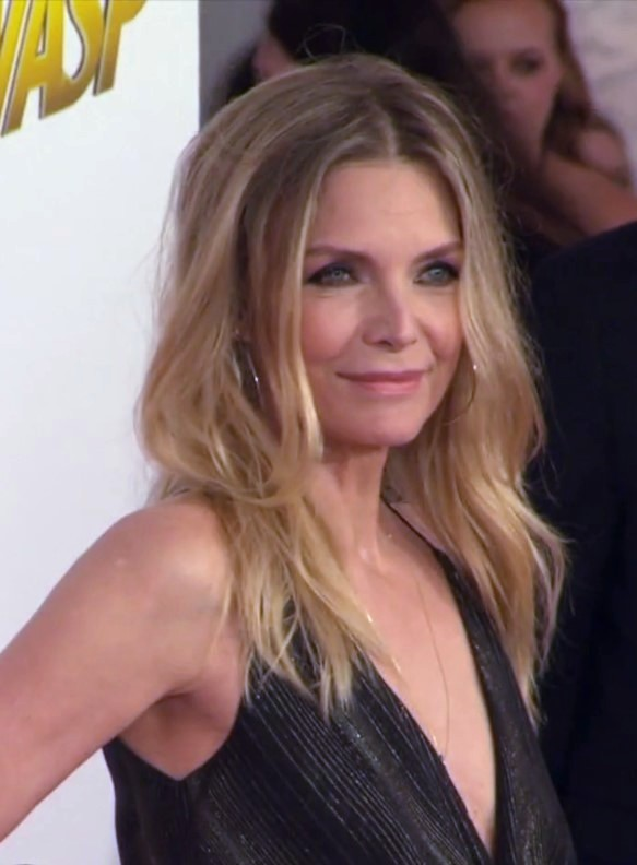 Michelle Pfeiffer at Ant-Man & The Wasp premiere in 2018